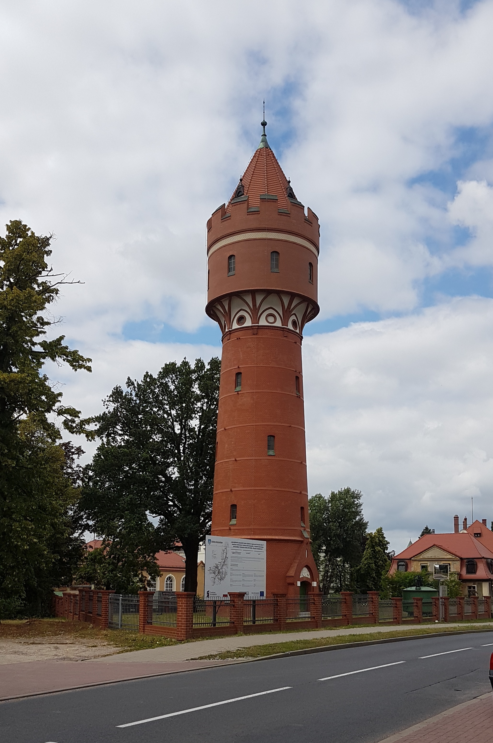 Water tower in Kożuchów 1908